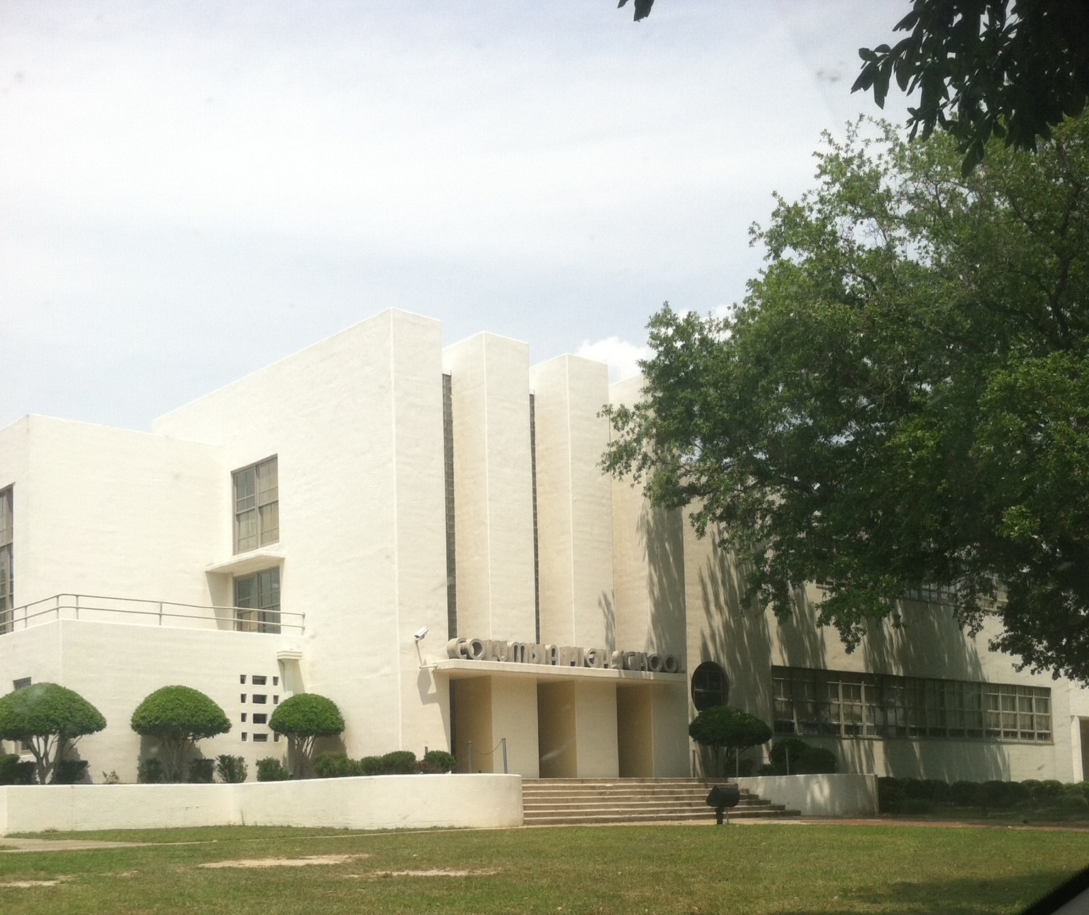 Columbia High School - 1009 Broad Street Columbia, MS 39429